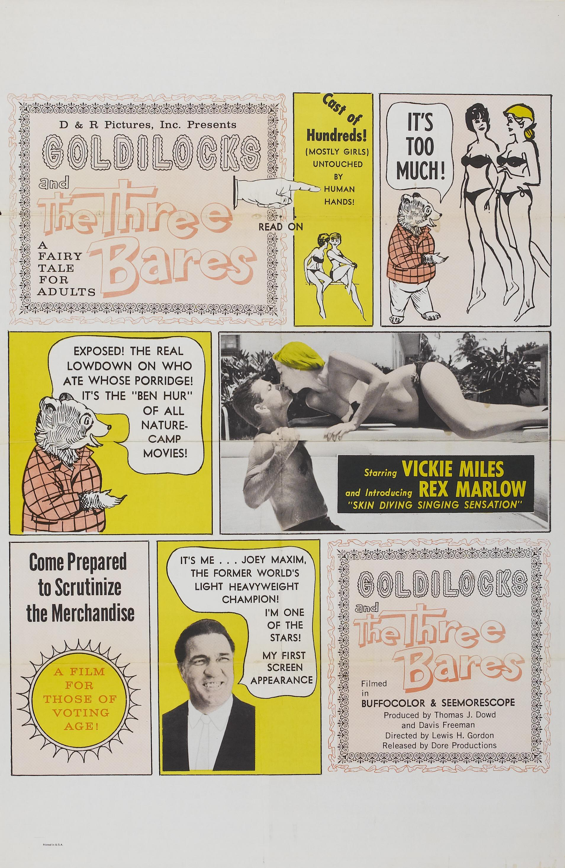 Film poster for the sexploitation film Goldilocks and the Three Bares